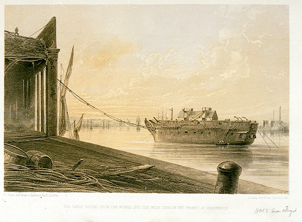 The cable passed from the works into the hulk lying in the Thames at Greenwich This print depicts the 'Amethyst' hulked. The image relates to the transatlantic cable manufactured at East Greenwich for loading into the 'Great Eastern' and is from the original account of the laying of the cable in the 1860s, which Dudley illustrated. The Telegraph Construction and Maintenance Company, under the chairmanship of John Pender, manufactured the 1865 cable at Greenwich. After it had been made, the cable was coiled down into great cylindrical tanks at Enderby's Wharf before being fed into the ship. The 'Amethyst' and 'Iris' transferred the 2500 miles (4022 km) of cable to the 'Great Eastern' as she lay at a mooring at Sheerness, an operation that took over three months.